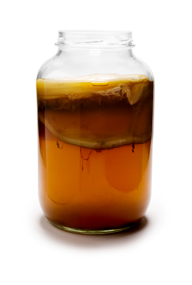 Mature Kombucha